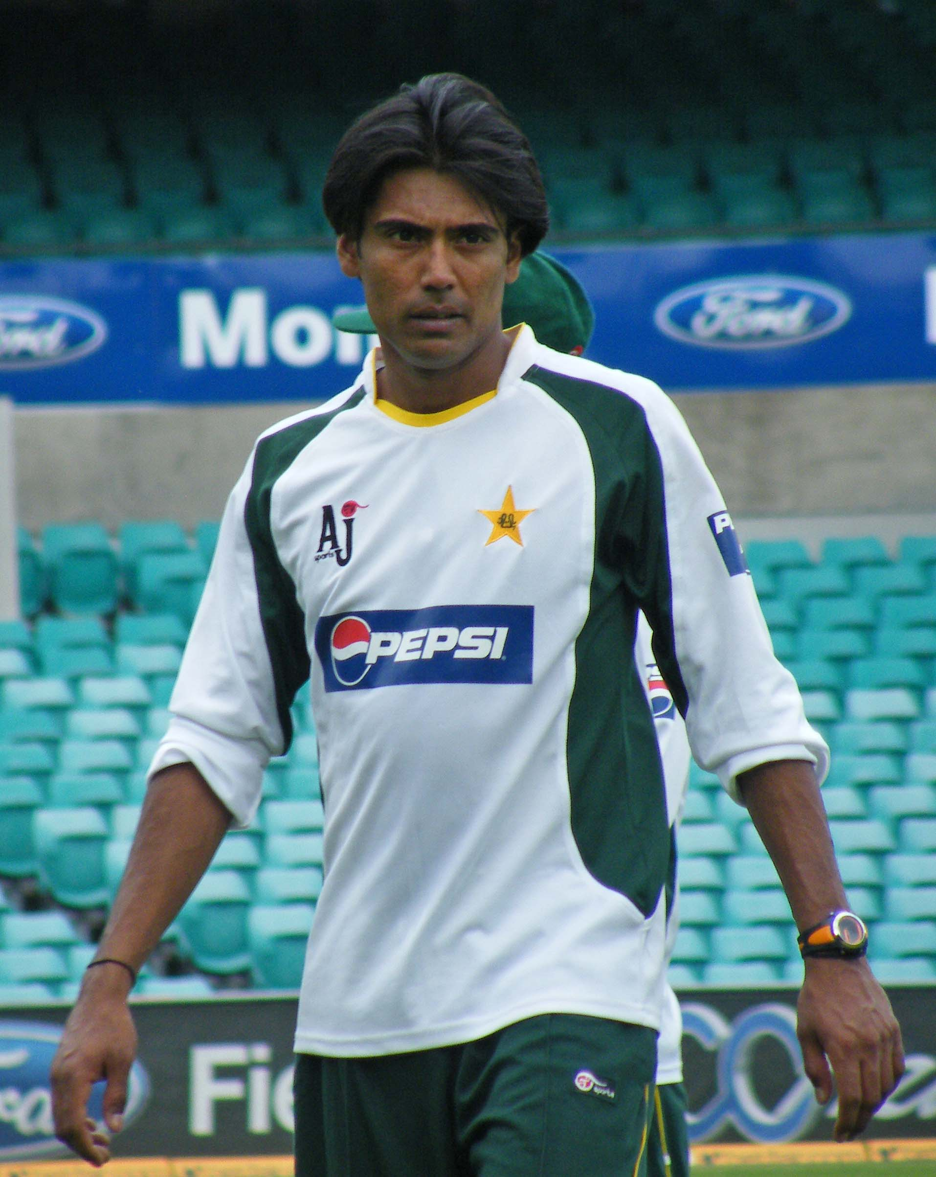 Mohammad Sami of Pakistan Cricket